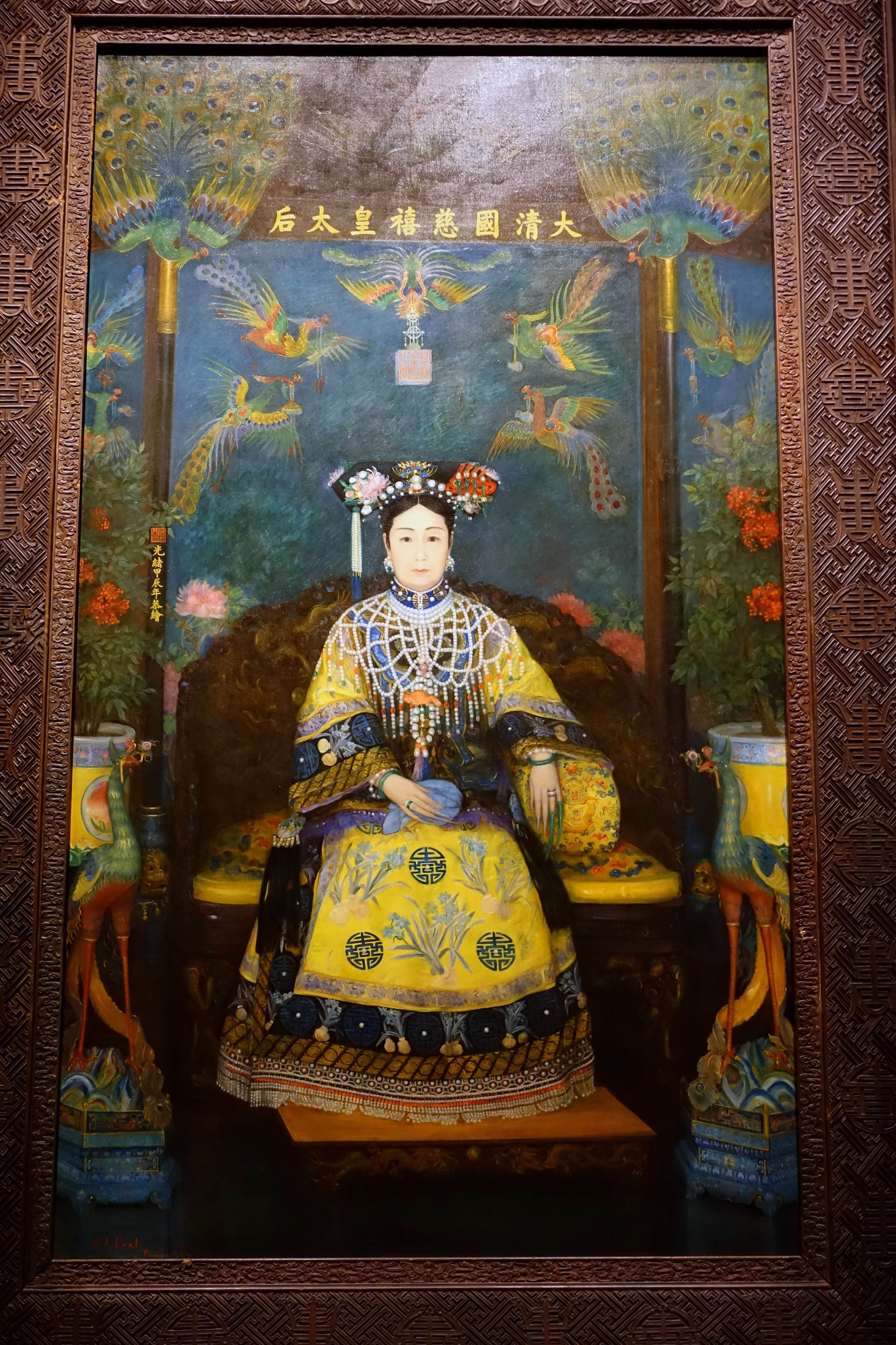 Exhibit in the Peabody Essex Museum - Salem, Massachusetts, USA.